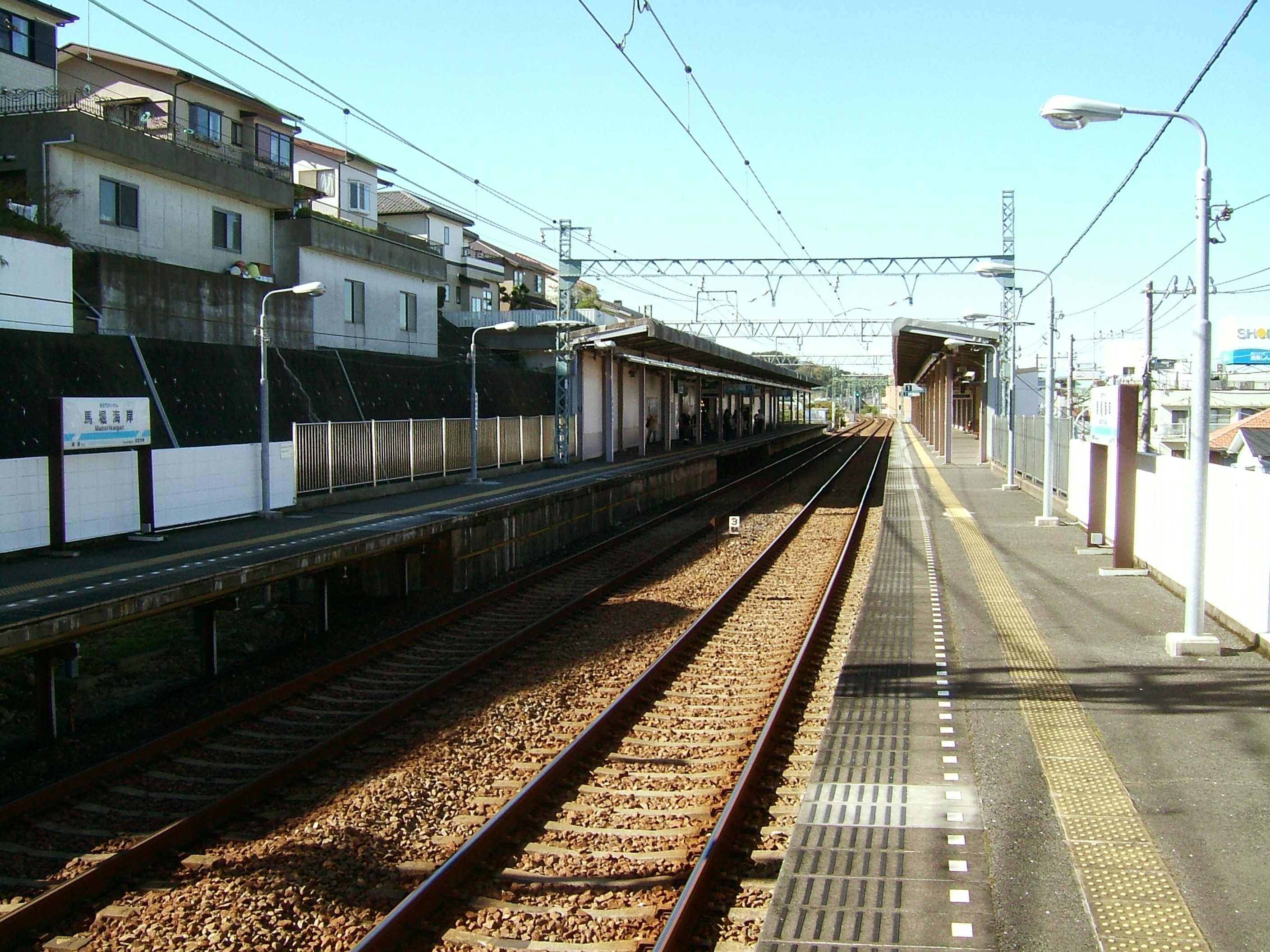 Mabori-Kaigan Station platform (Keihin Electric Express Railway Main Line)